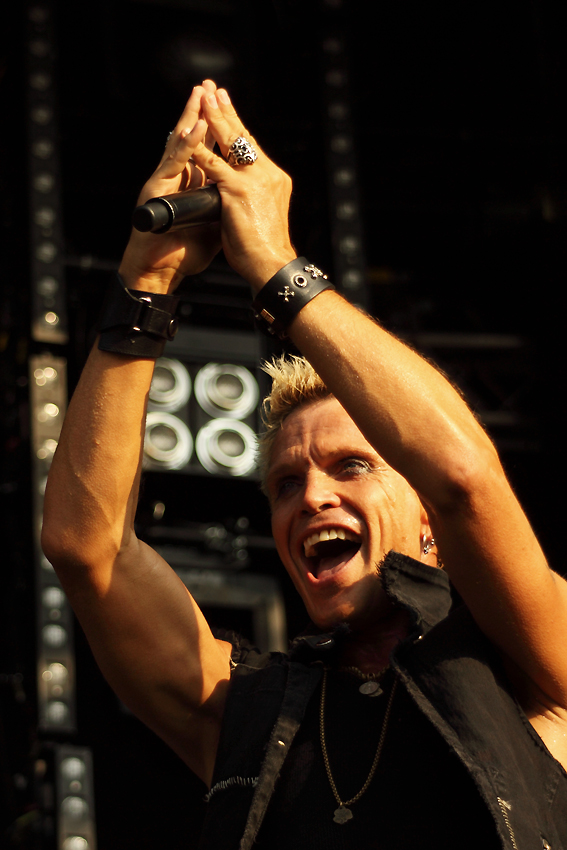 Billy Idol at Bospop festival, Weert, the Netherlands, 2010-07-11